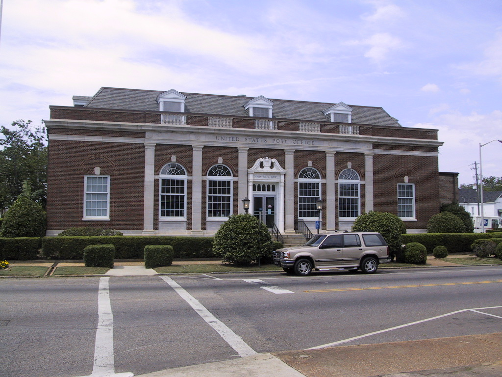 Personal photo made by Slipdigit